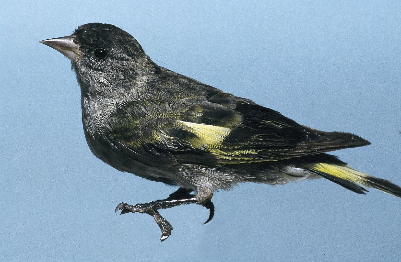 Carduelis atriceps from a photograph by Arnaiz-Villena & Ruiz-del-Valle. It shows a gray wash and a black cap (Quetzaltenango-Xela, Guatemala).